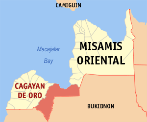 Map of the Misamis Oriental showing the location of Cagayan de Oro City